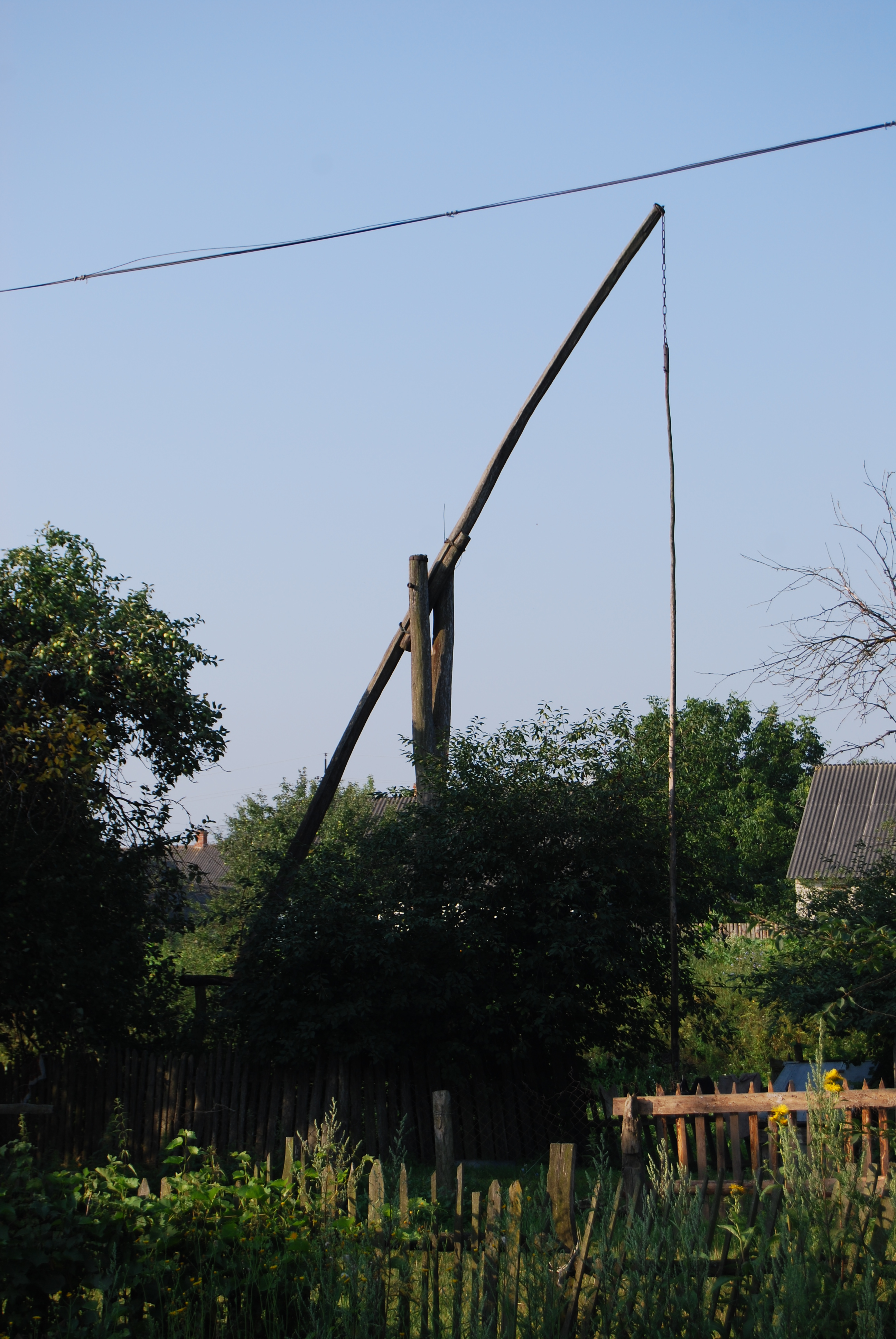 Volhynian-Polesian well (area of Stepań)